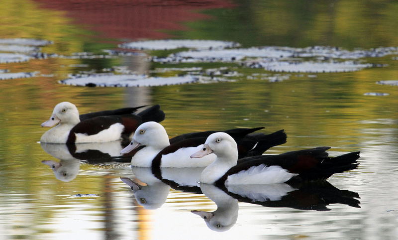 Burdekin Ducks (Rajah Shellduck) - Durack Lakes - Palmerston - Northern Territory - Australia